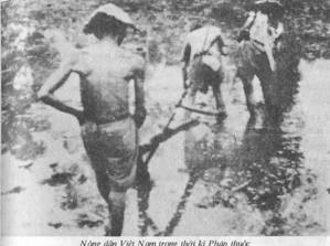 Peasant in Vietnam 1930